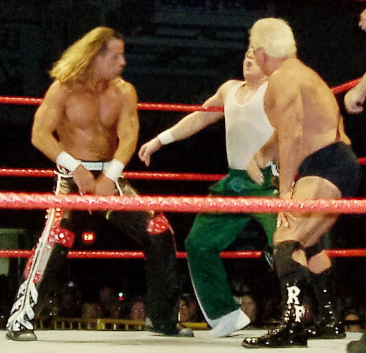 A picture of Shawn Michaels and Ric Flair delivering Double Knife Edge Chops.